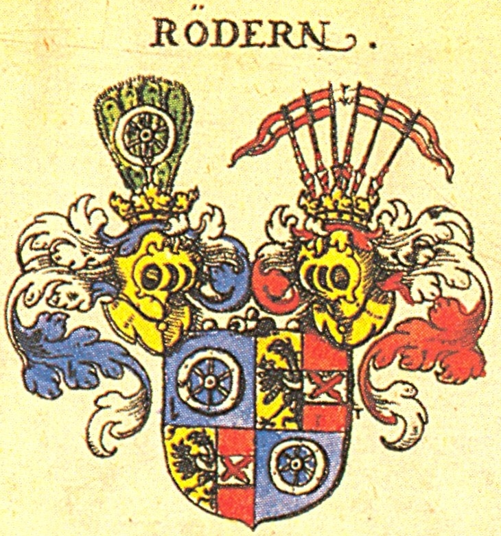 This coat of arms was developed when Friedrich von Rödern from the Silesian noble family von Rödern zu Rupperdorf became Freiherr in 1562. It takes up the old symbol of the Silesian Rödern family, the wheel. Later, it was melted with the signs of the second Rödern family from Prussia.